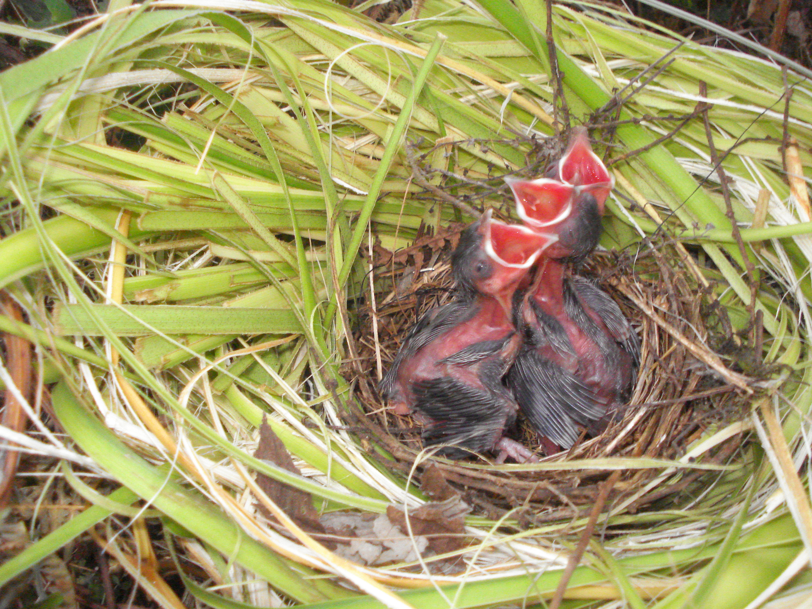 Hungry young babes.(birds).....Answer is Mother, and Answer is with Mother.